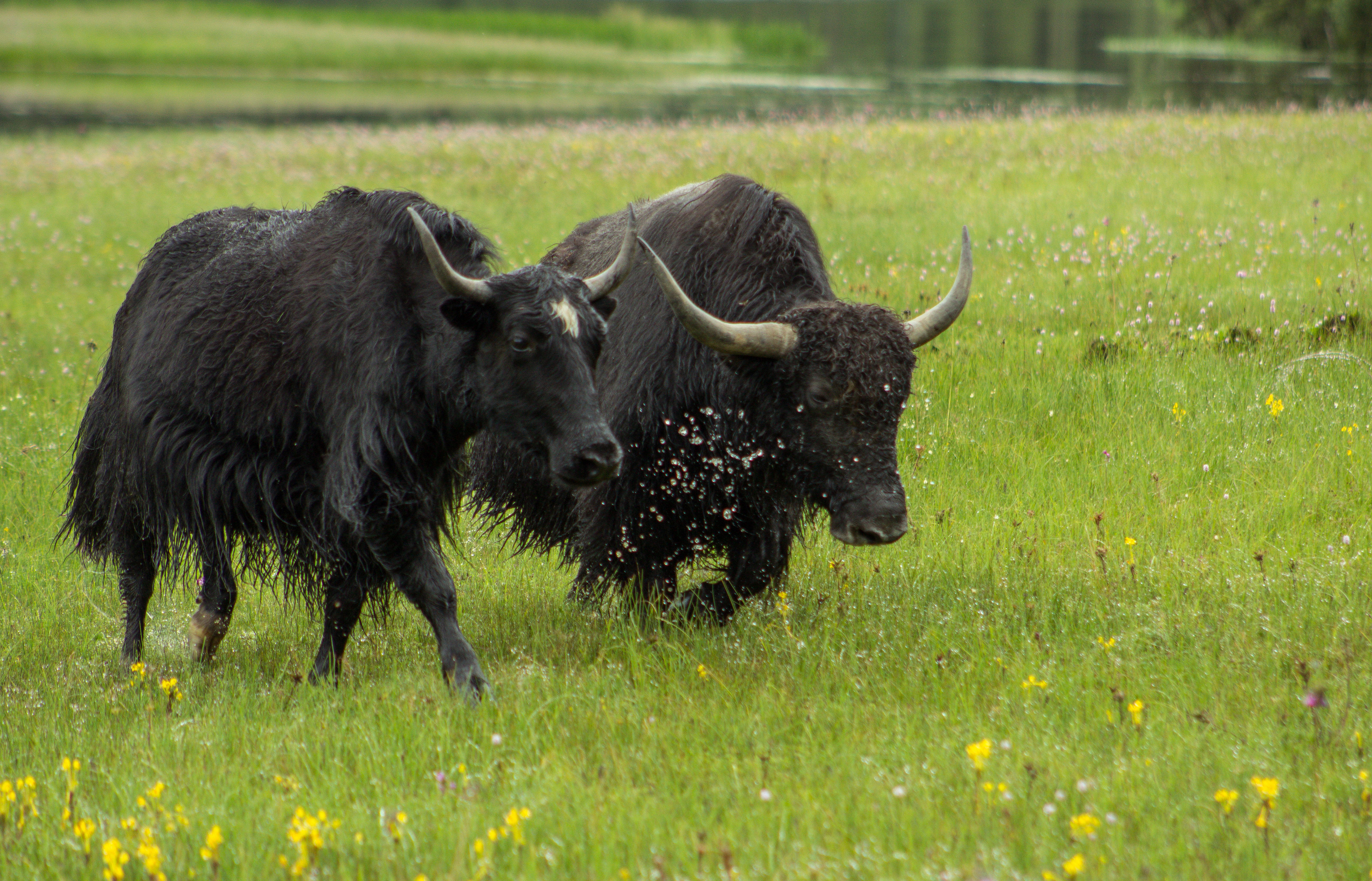 A pair of domestic yak (Bos grunniens) in Pudacuo National Park. These yak roam freely throughout the park and in particular frequent wide open areas next to the lakes here. On occasion they stray near visitors.